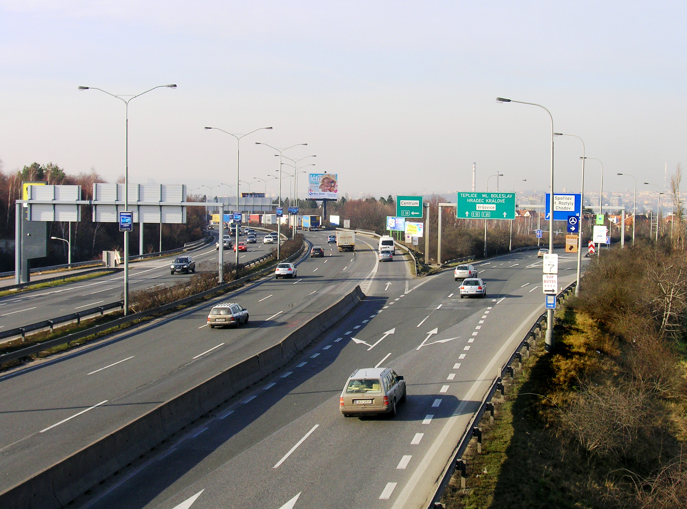 End of D1 highway in Chodov, Prague